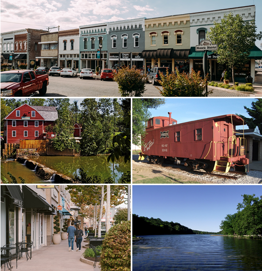 Collage of Rogers, Arkansas